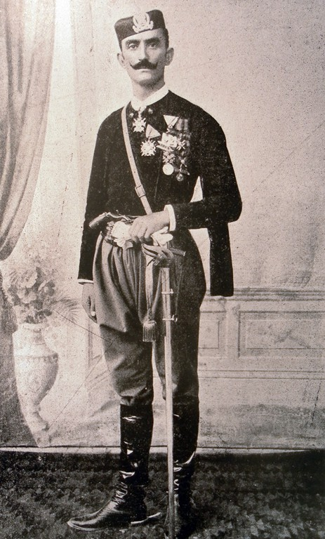 The Montenegrin captain Aleksandar Lekso Sajčić “decorated with many Russian crosses for his bravery during the Japanese war